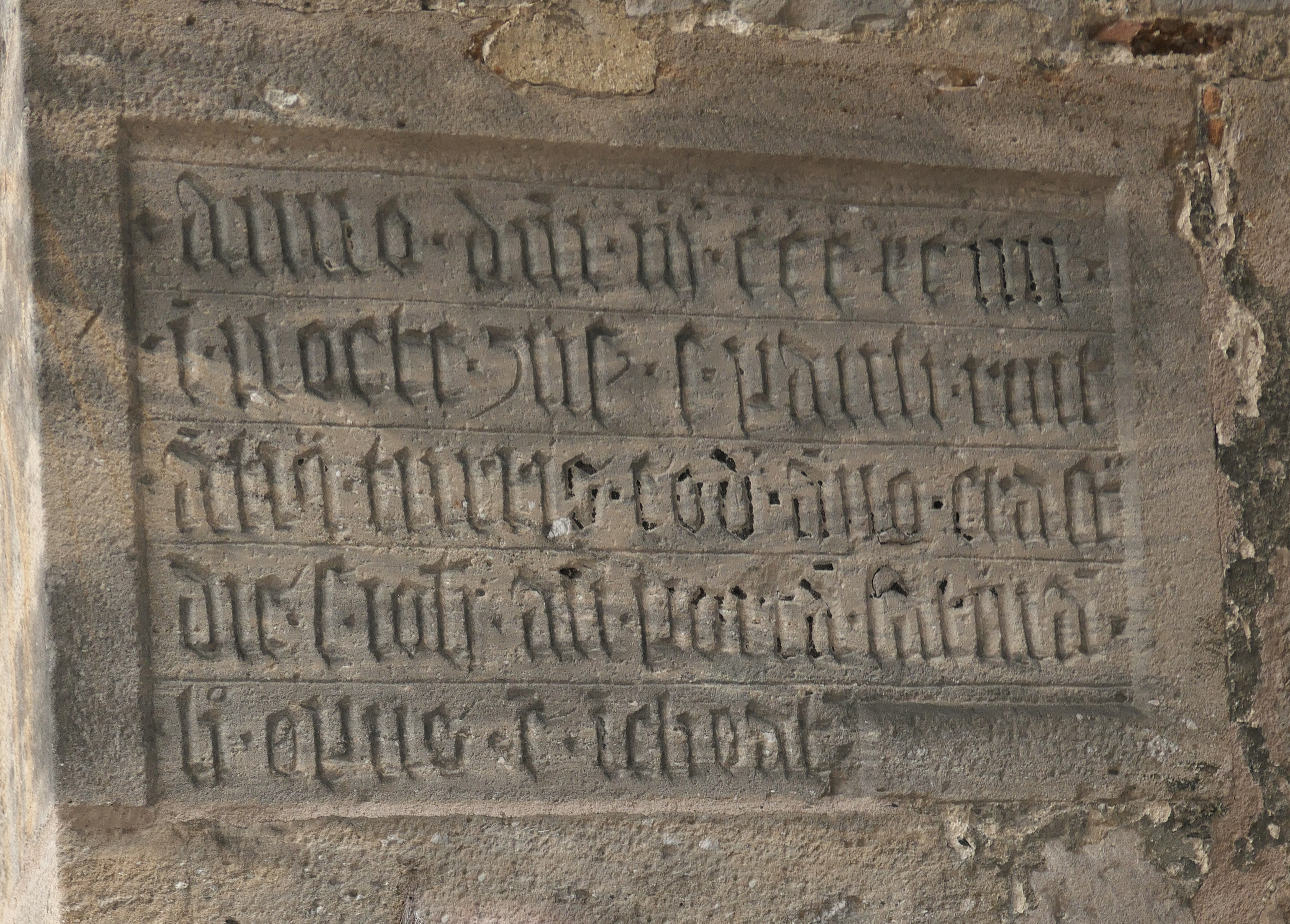 Walpurgis Church Alsfeld, Germany, inscription in Latin language about the crash of the previous tower in 1394.